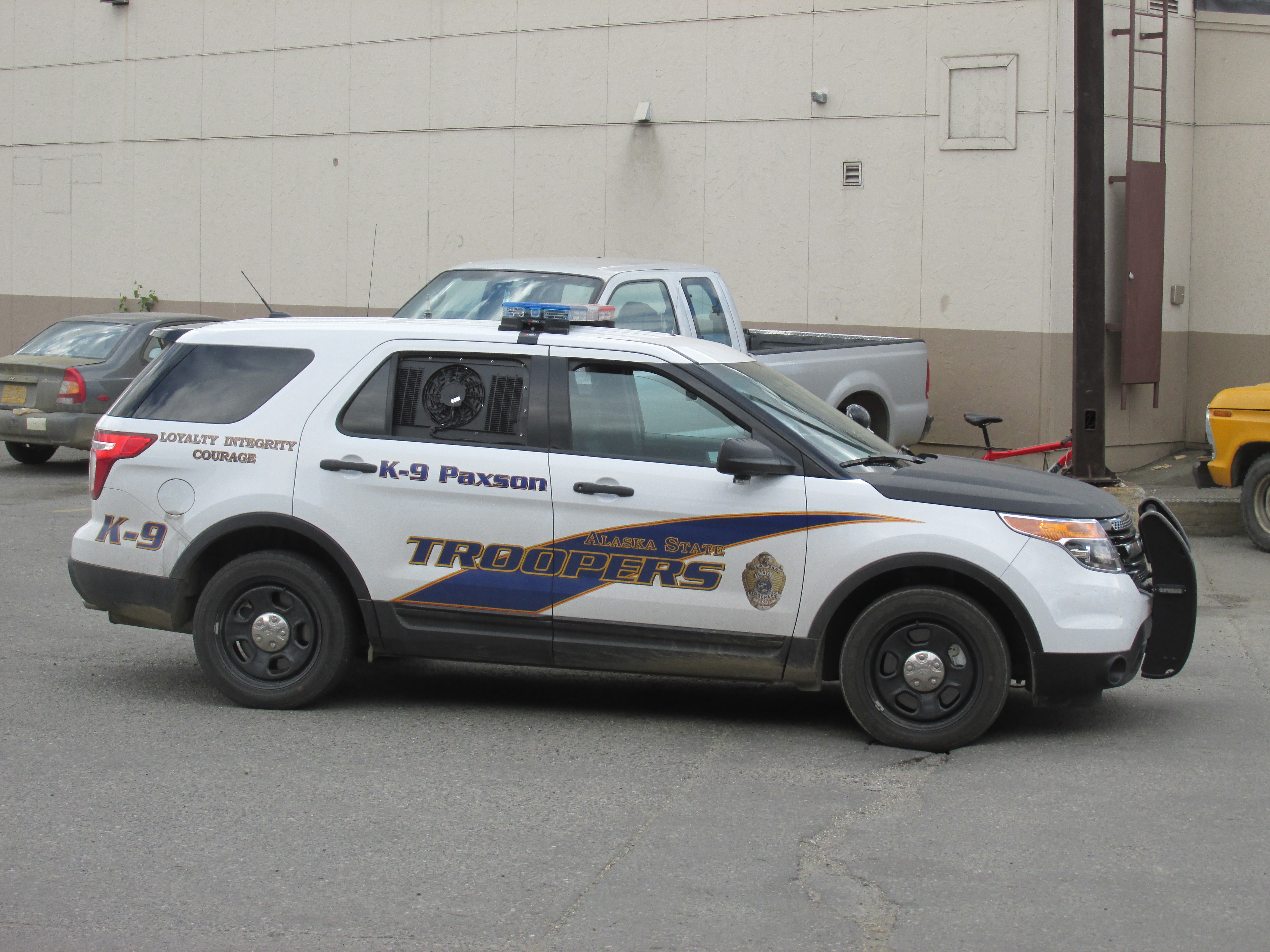 Alaska State Trooper K-9 Unit parked in College, Alaska. They were performing a search during a traffic stop, which I did not photograph. Note the fan in the window (remember, dogs die in hot cars).